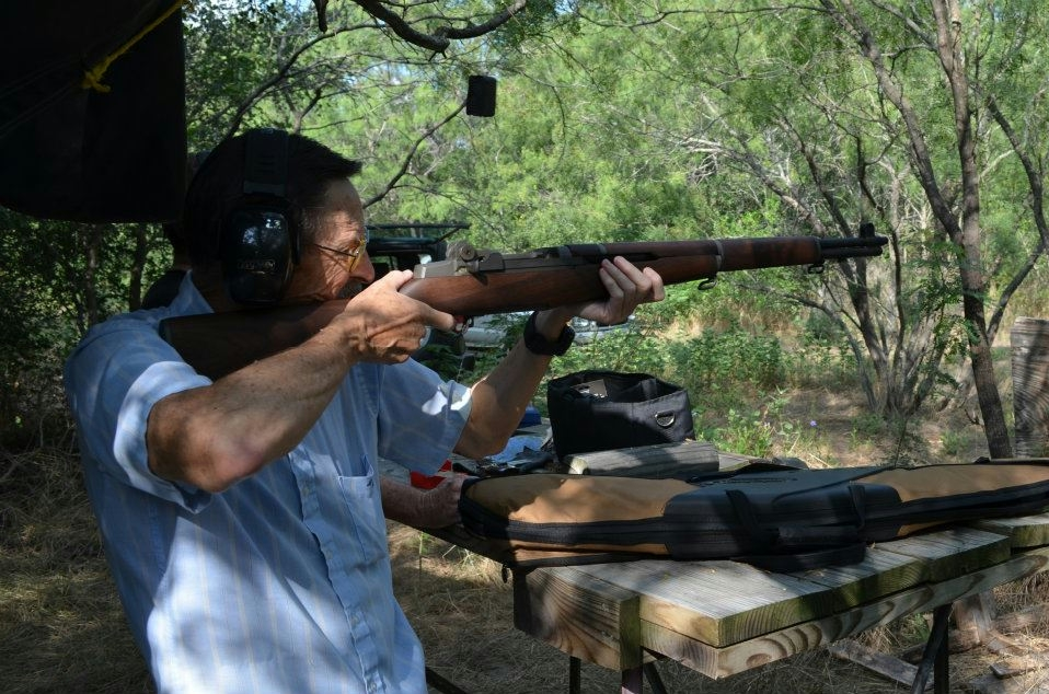 MI Garand 30-06. Note the ammunition clip at 12 O'clock. It ejects from the rifle after all eight rounds are depleted.